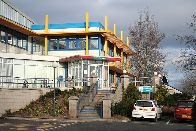 Exeter: Great Moor House The Devon Record Office. Looking north east towards the entrance from the visitors' car park. For further details